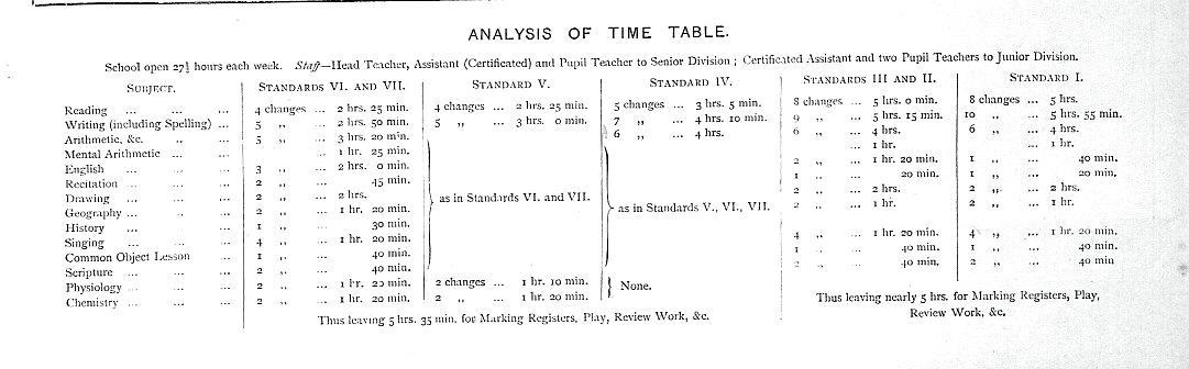 JF Gladman's Analysis of his Large School Timetable 1886